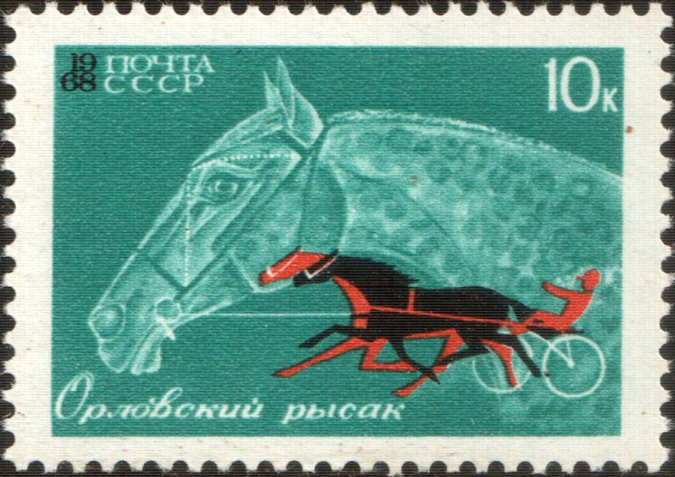 USSR stamp: Orlov Trotter and Harness Racing. Series: Soviet Horse Breeding and Riding